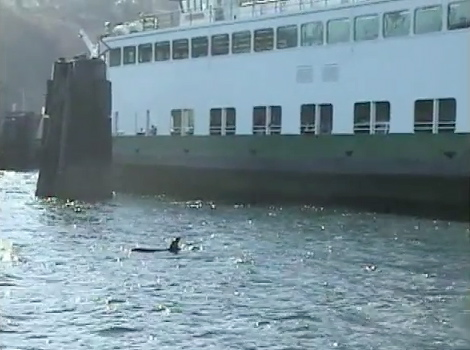 Springer by Washington State Ferry, Seattle. (English Wikipedia caption says this at the Fauntleroy ferry terminal.)